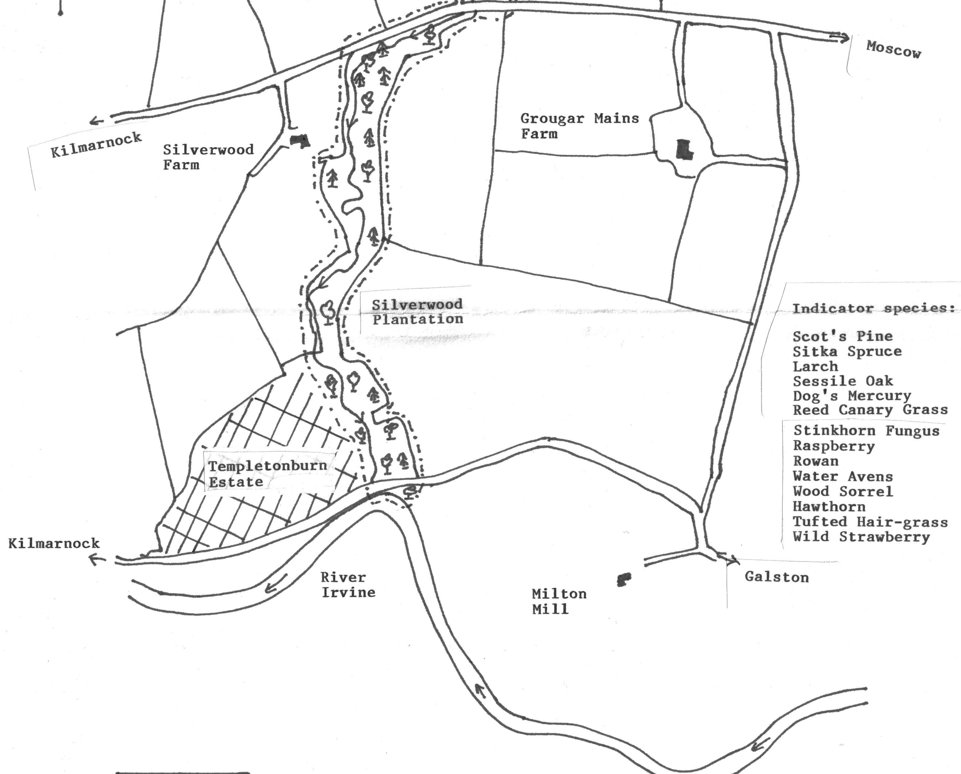 Silverwood plantation and Templetonburn, Ayrshire, Scotland.